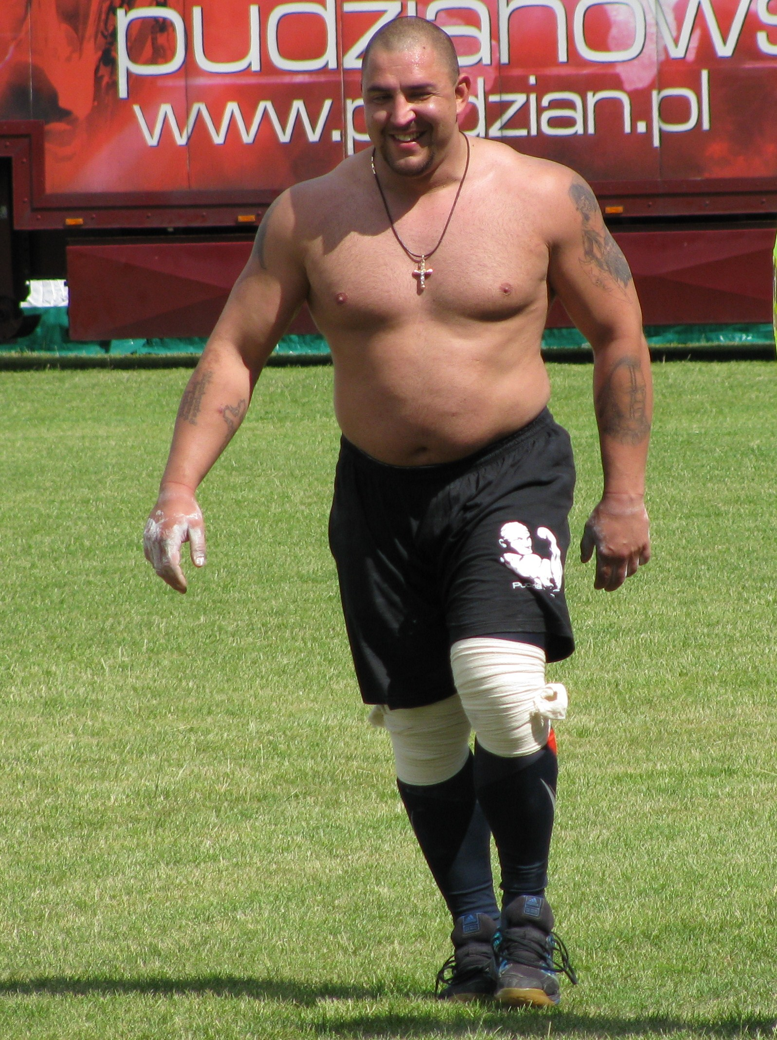 Raivis Vidzis - a strength athlete from Latvia